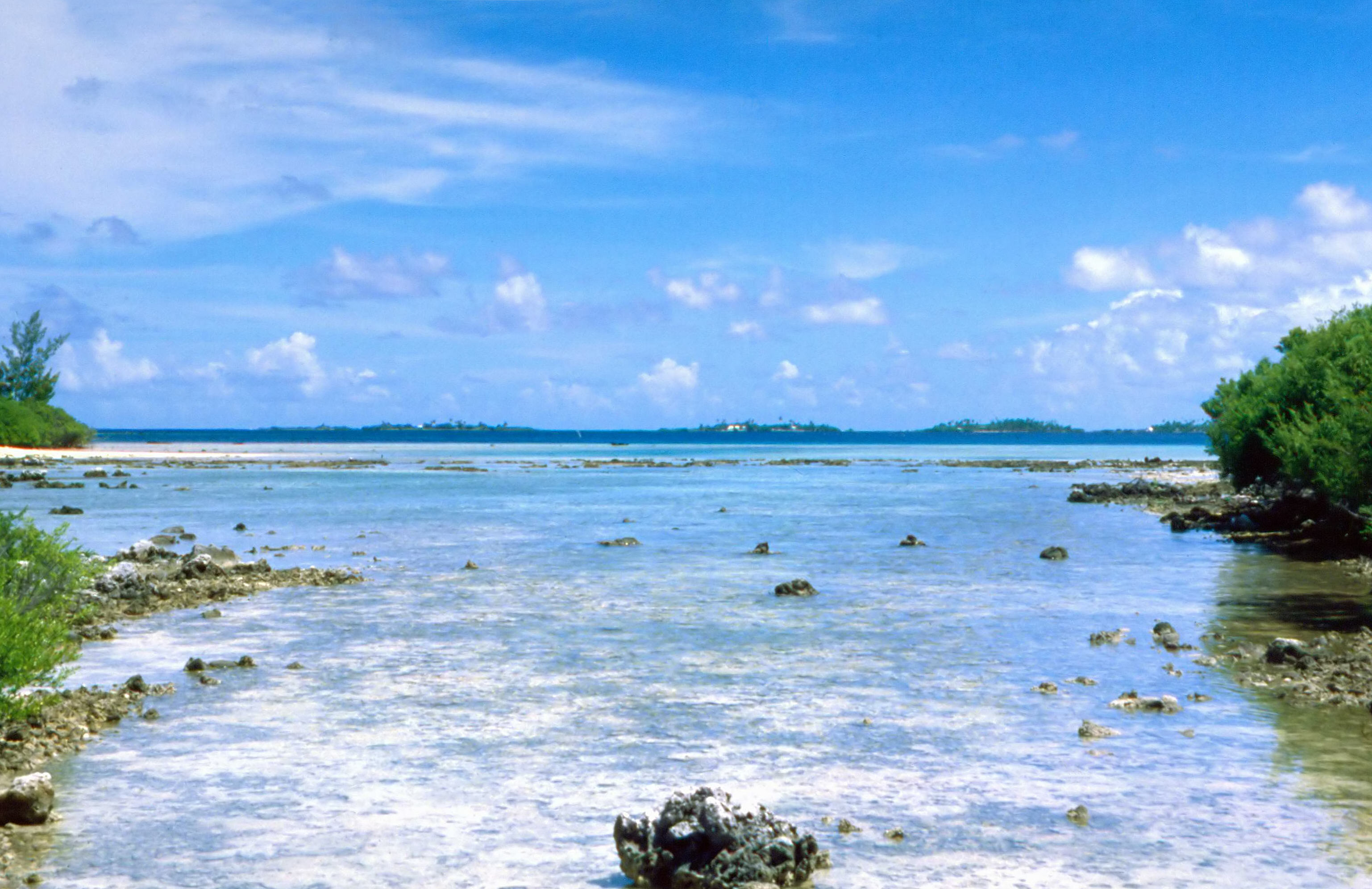 Inner lagoon of Manihi Atoll, Tuamotu Archipelago, French Polynesia